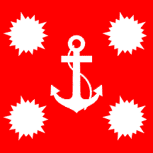 Flag of Turkish Naval Forces Command based on this